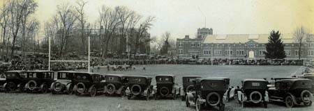 Dow Athletics Field at the University of Connecticut in 1920.